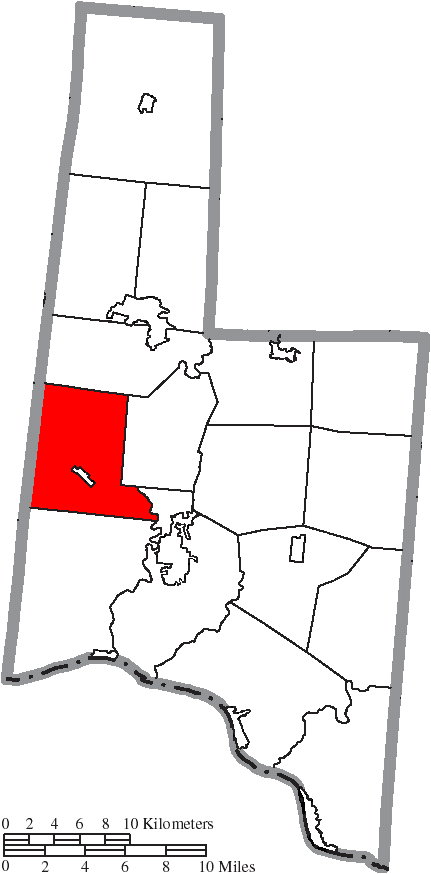 Map of the municipal and township boundaries of Brown County, Ohio, United States, as of the 2000 census, with the location of Clark Township highlighted. Township borders are shown only in unincorporated areas in order to differentiate incorporated and unincorporated areas more clearly.